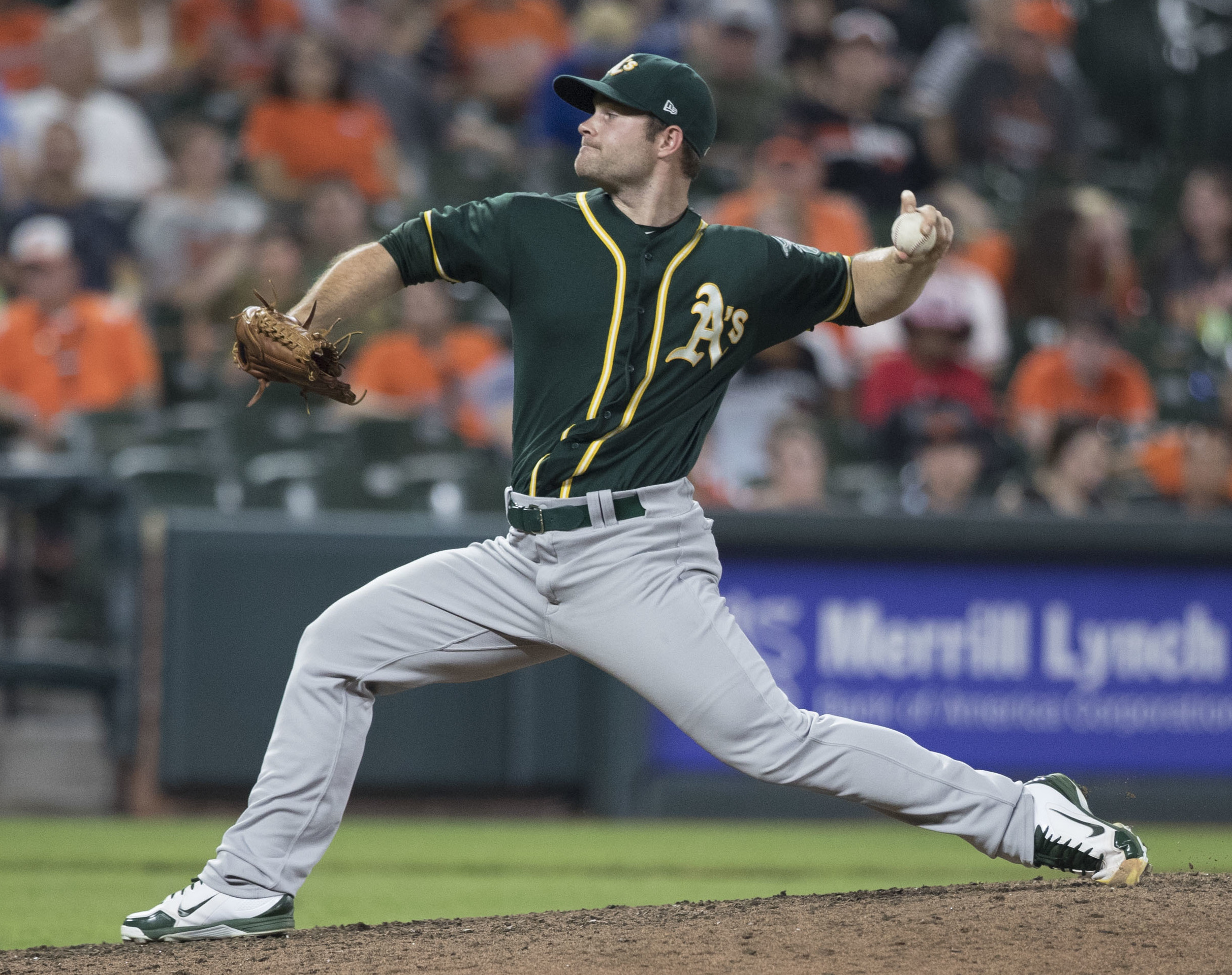 A's at Orioles 8/22/17